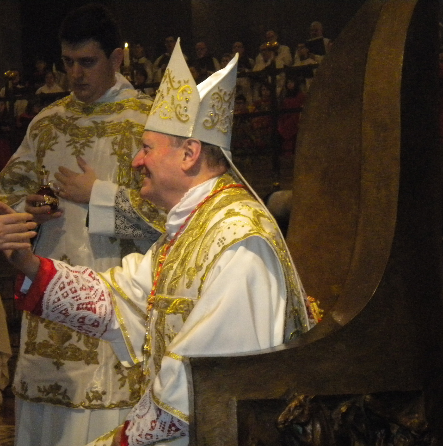 Gianfranco cardinal Ravasi in Lodi, Jan, 19th, 2014